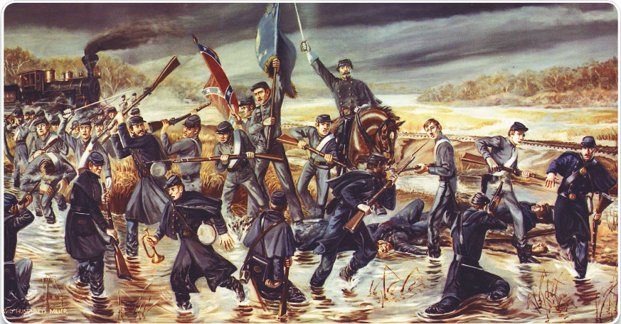 Battle of Tulifinny Mural at Daniel Library, The Citadel, Charleston, SC